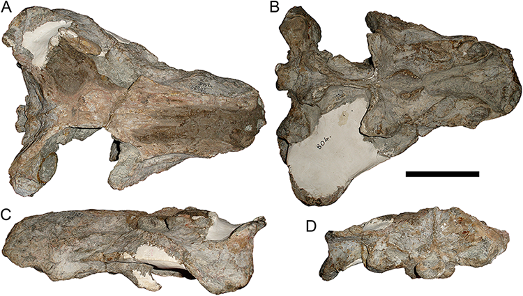 Referred specimen (UCMP 42750) of Leontosaurus vanderhorsti Broom & George, 1950 in (A) dorsal, (B) ventral, (C) left lateral, and (D) occipital view. Scale bar equals 10 cm.